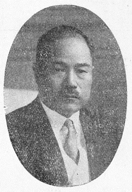 Keishiro Ochiai